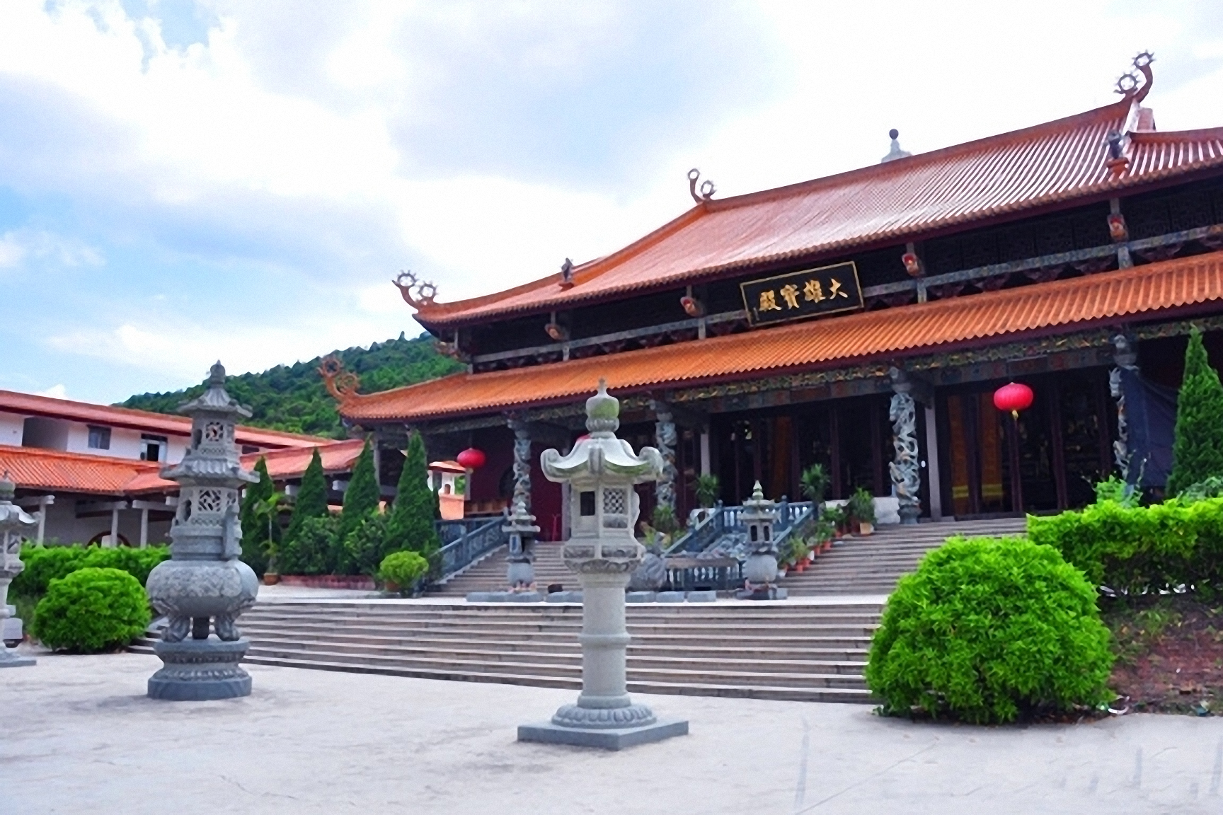 A glimpse of Longhua Temple at Puning